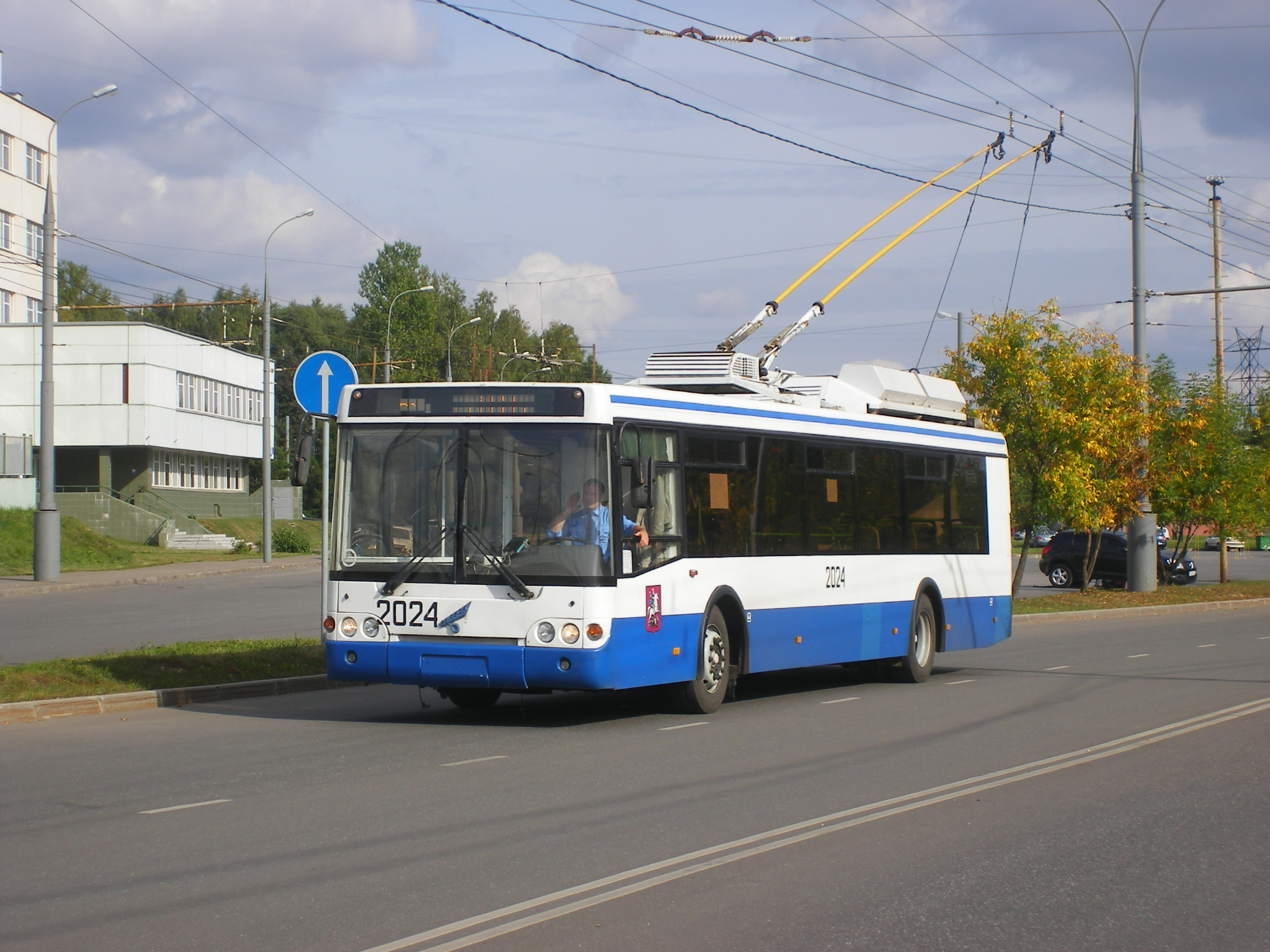 Trolleybus MTRZ-5279.1 "SadKo" #2024 near the Nowokosinsky trolleybus depot.